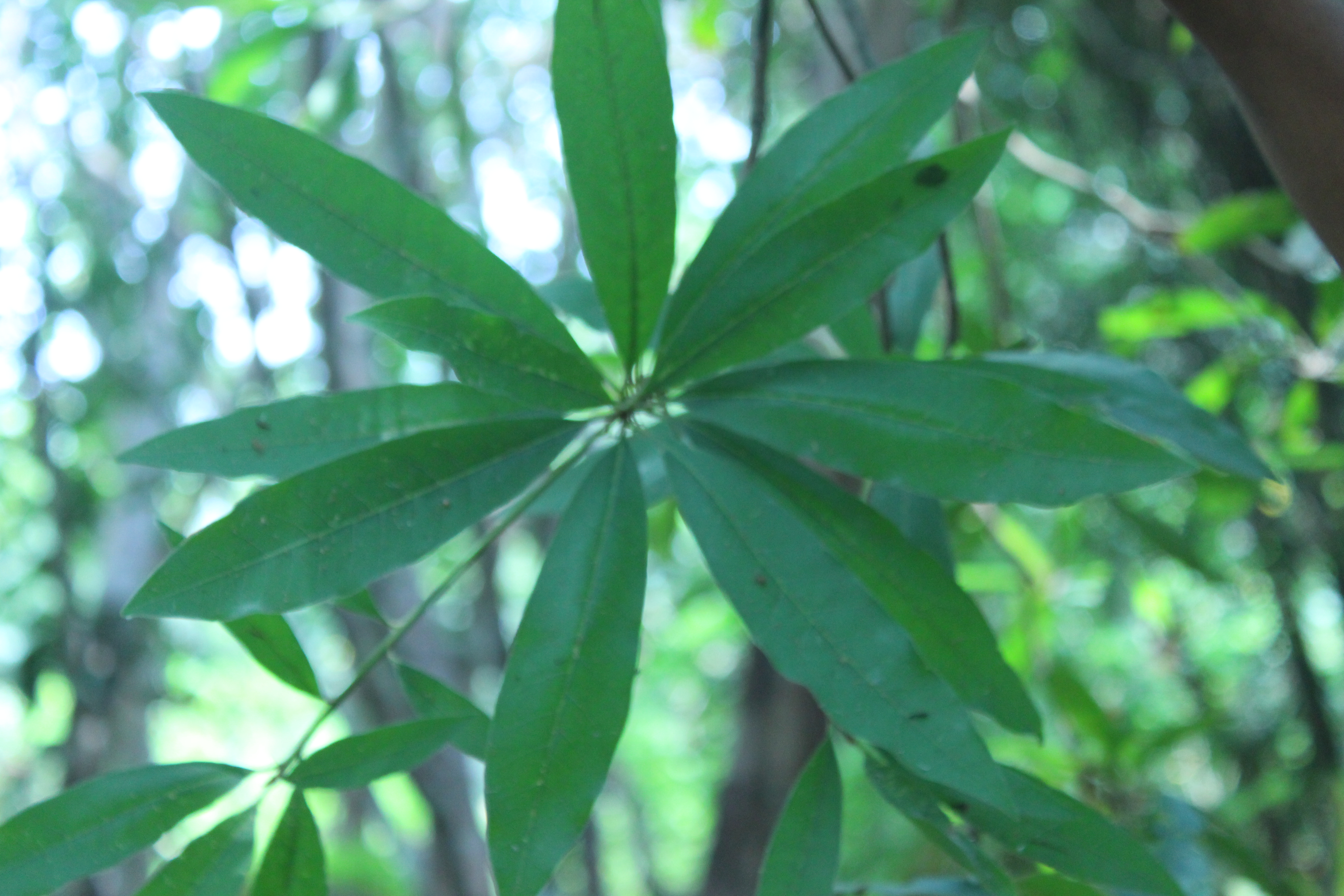 MADHUCA LONGLFOlIA